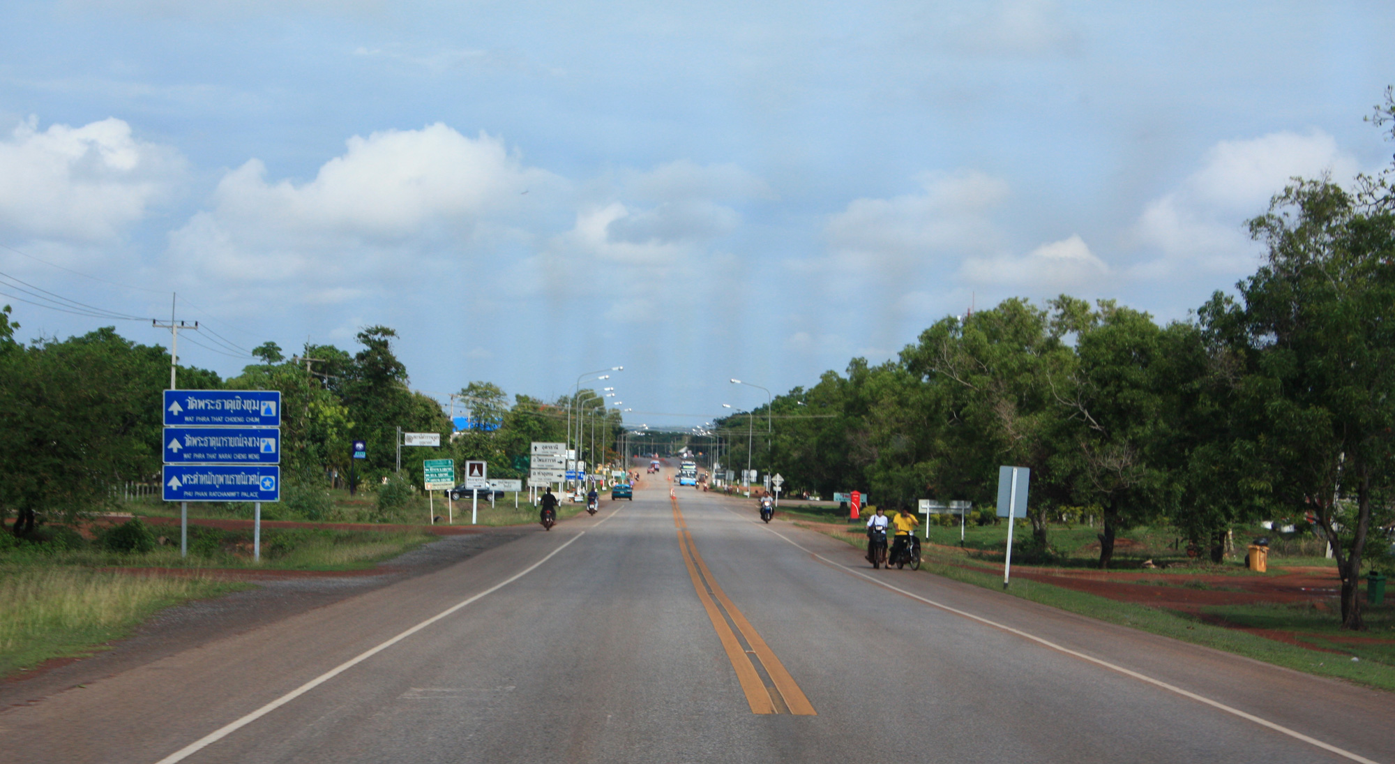 Highway 22 (from Nakhon Phanom to Udon Thani) near crossing with highway 2028 (towards Amphoe Phon Sawan and Amphoe Tha Uthen); Amphoe Kusuman, Sakhon Nakhon Province